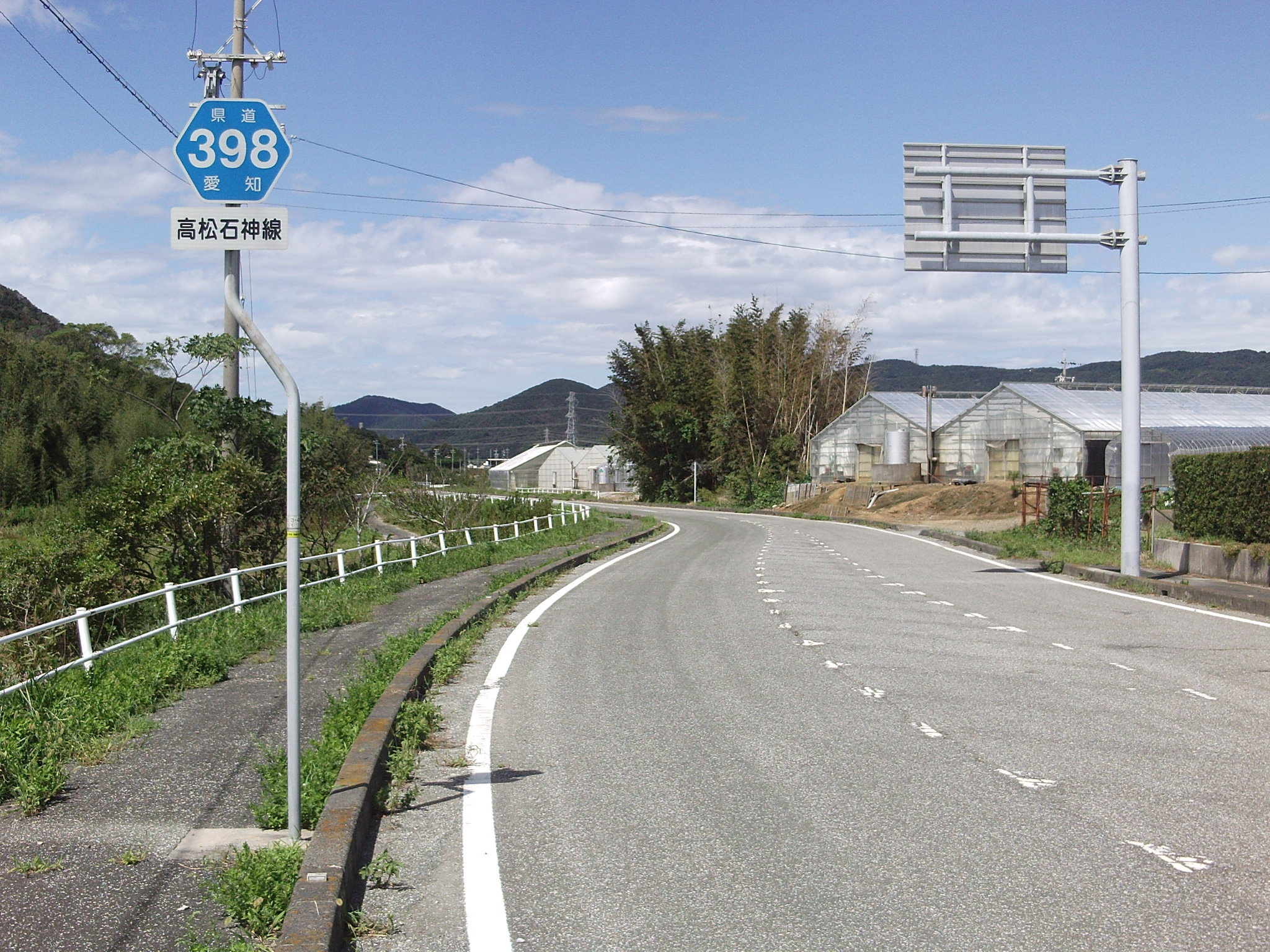 The Aichi Prefectural Road Route 398 in Takamatsucho, Tahara City